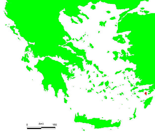 Map of Simi (Symi), Greece (Dodecanese)